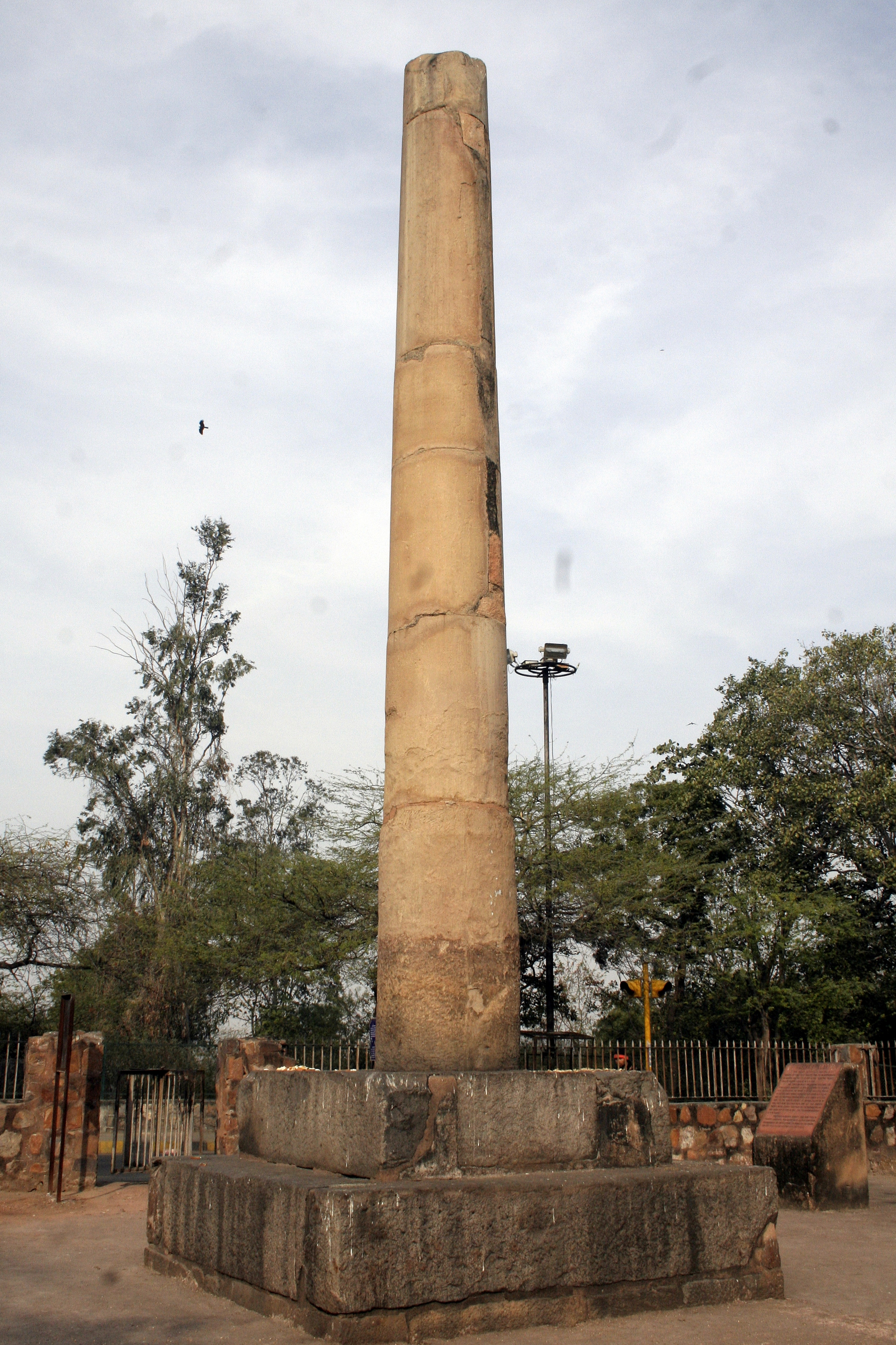 Ashokan Pillar The columns that bear the edicts of Ashoka include the two pillars at Delhi (originally located at Meerut and Topra in Haryana and were brought to Delhi during the reign of Firuz Shah Tughluq in 1356), It is located close to Bara Hindu Rao hospital